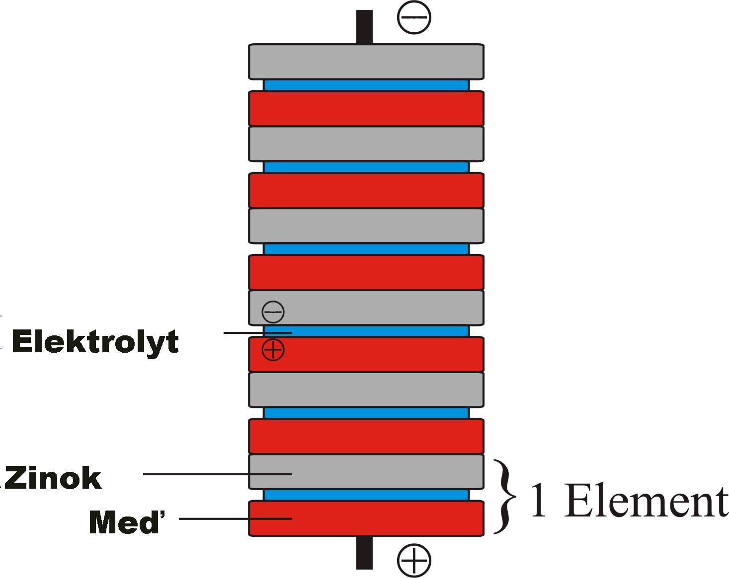 Voltaic pile with slovak description